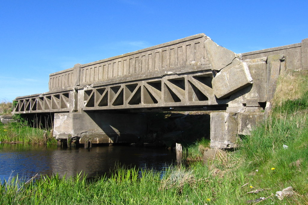 Bridge near Roby village, on Stara Rega river bed